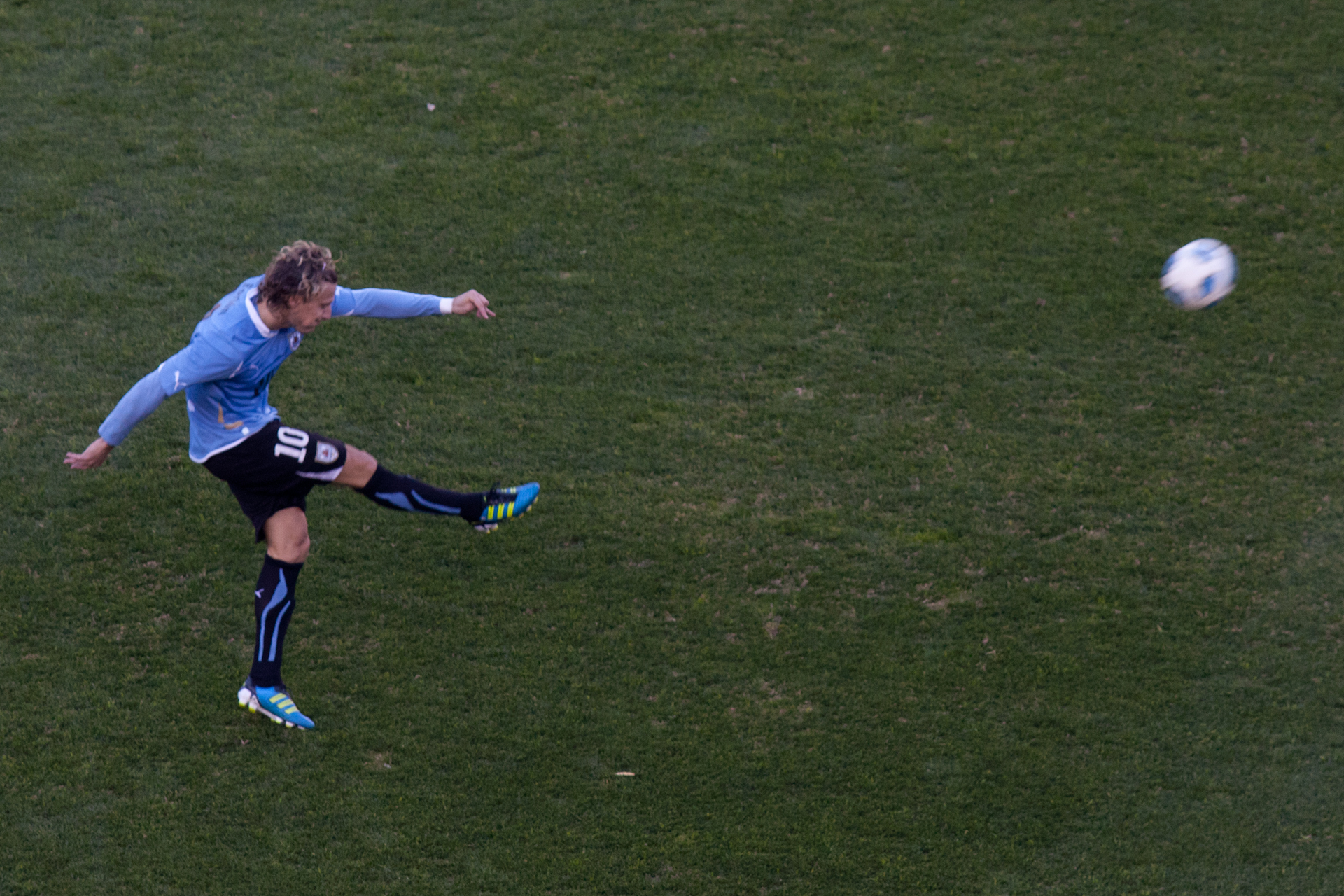 Diego Forlán during the 2011 Copa America final between Uruguay and Paraguay.